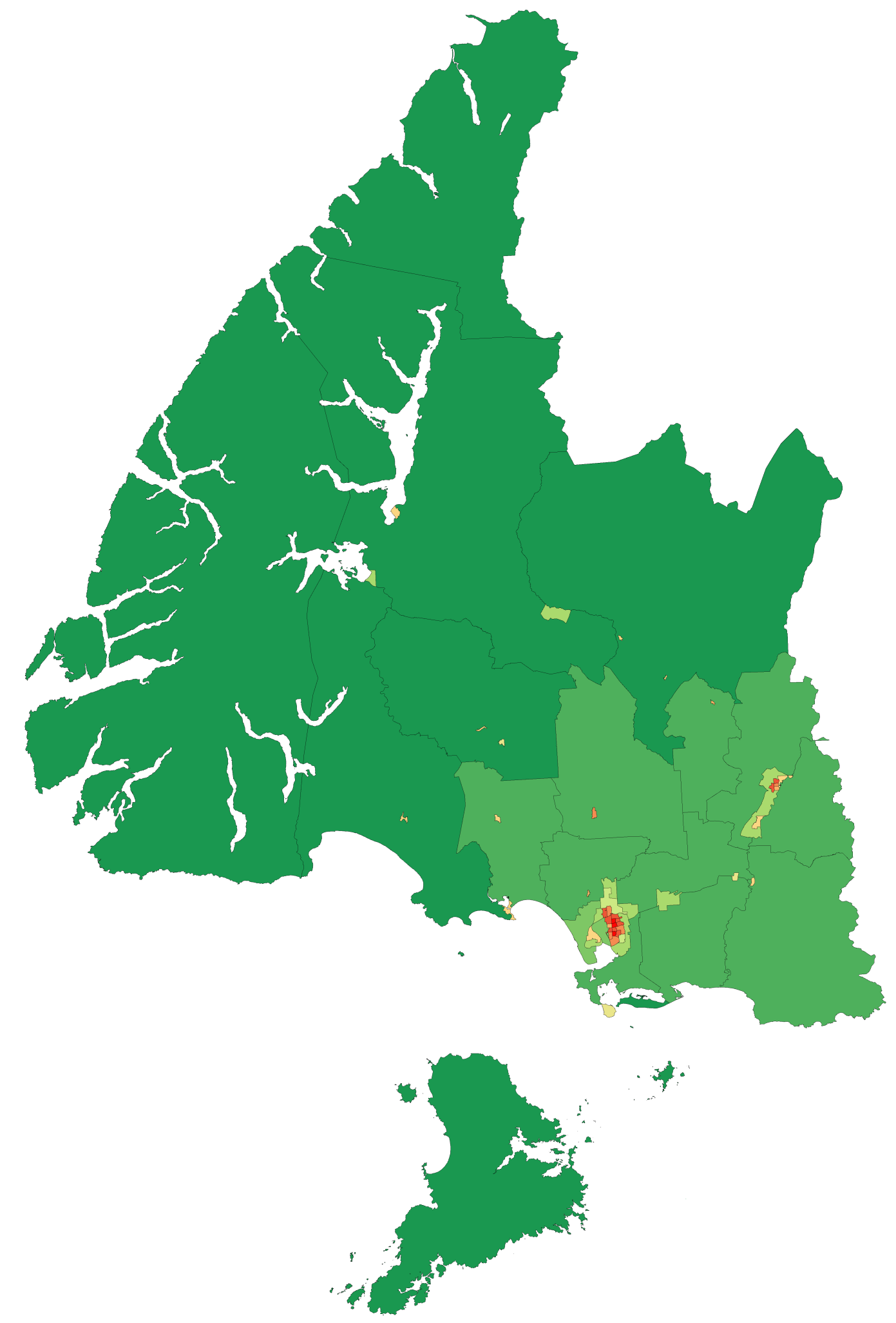 Map showing population density of a region of New Zealand (by Statistics NZ Area Unit) as of the 2006 census